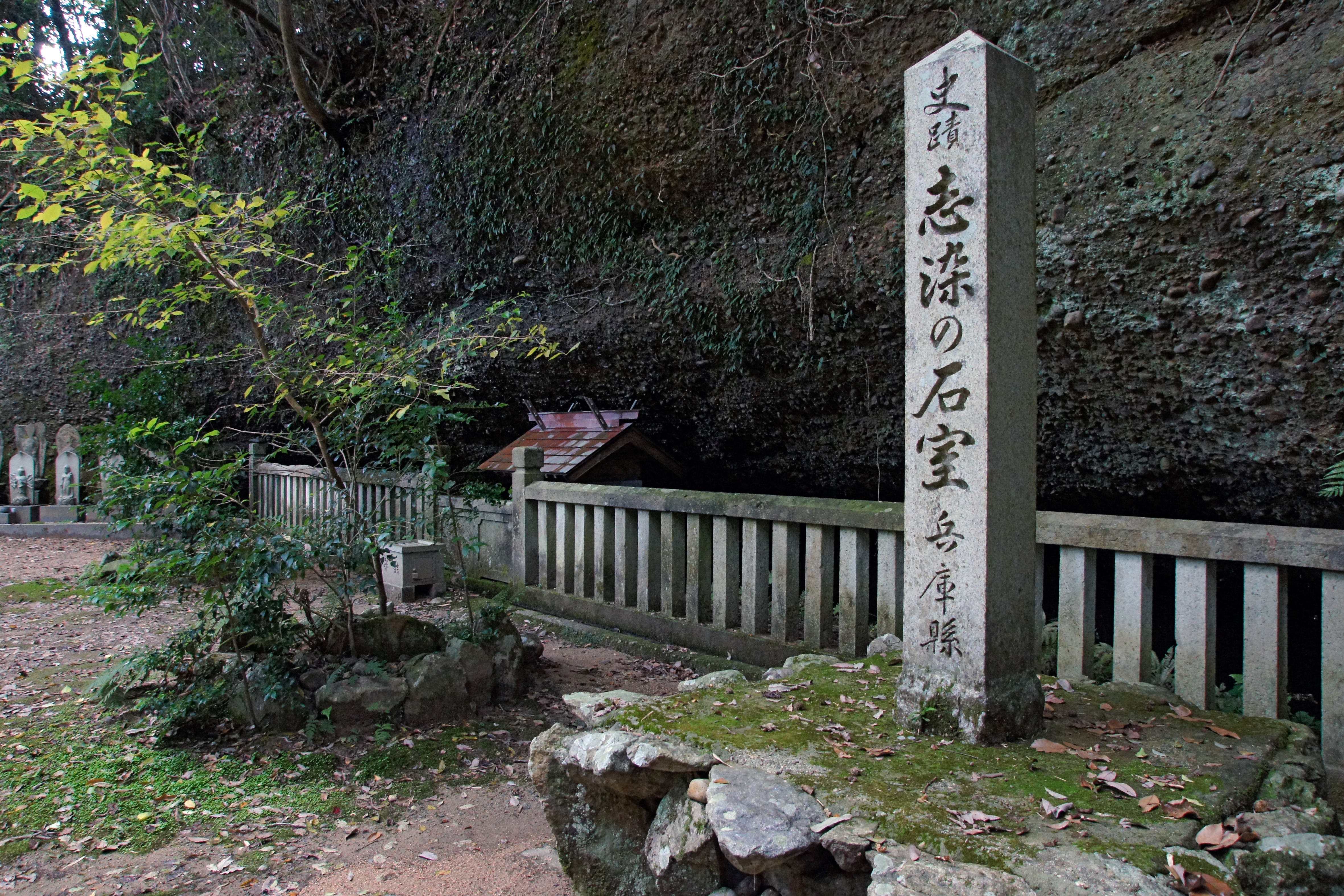 Shijimi-no-iwamuro, Miki, Hyogo prefecture, Japan